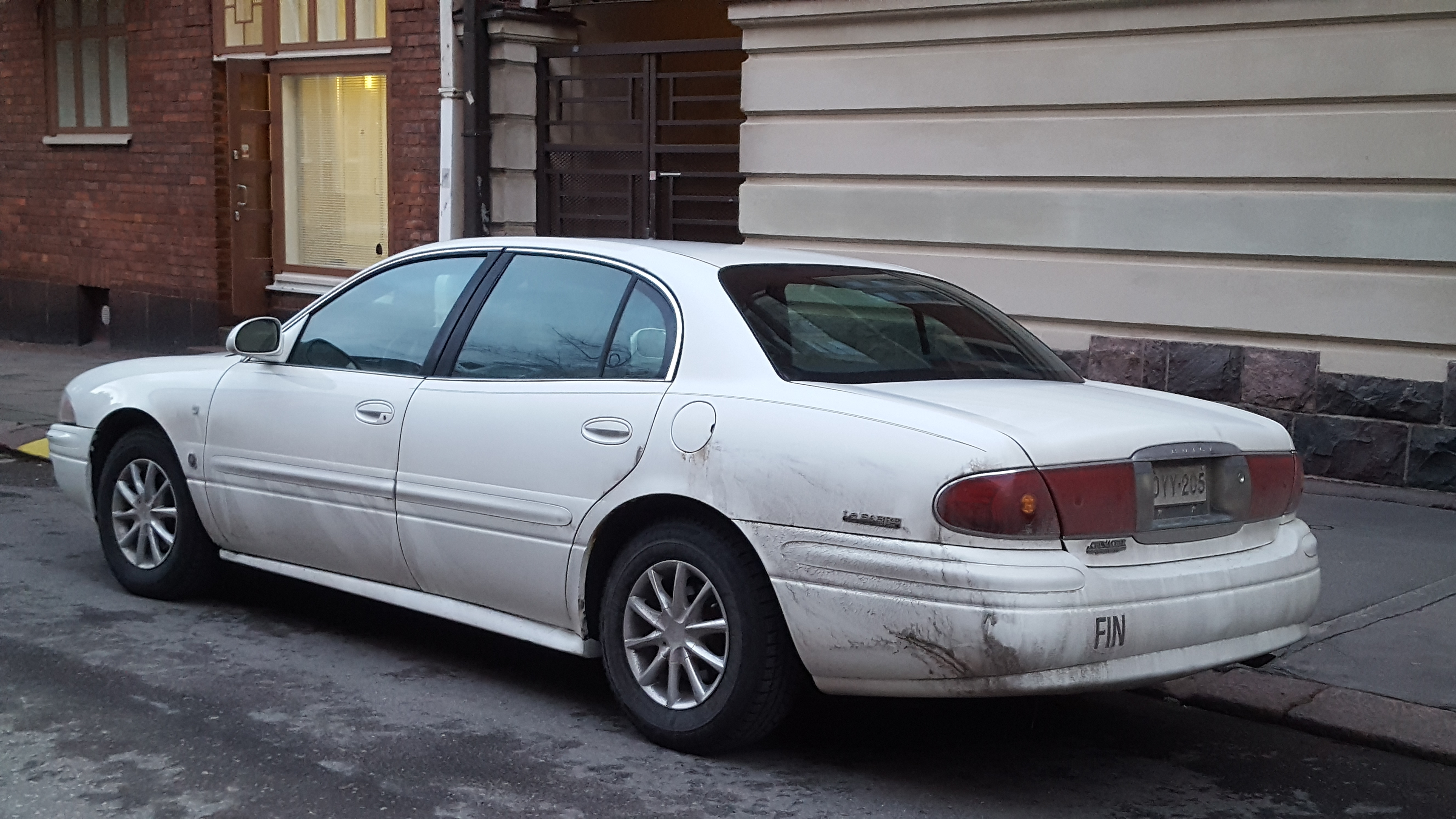 2000 Buick LeSabre Custom Imported in 2014.